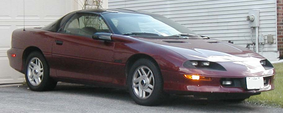 1993-1997 Chevrolet Camaro photographed in USA.